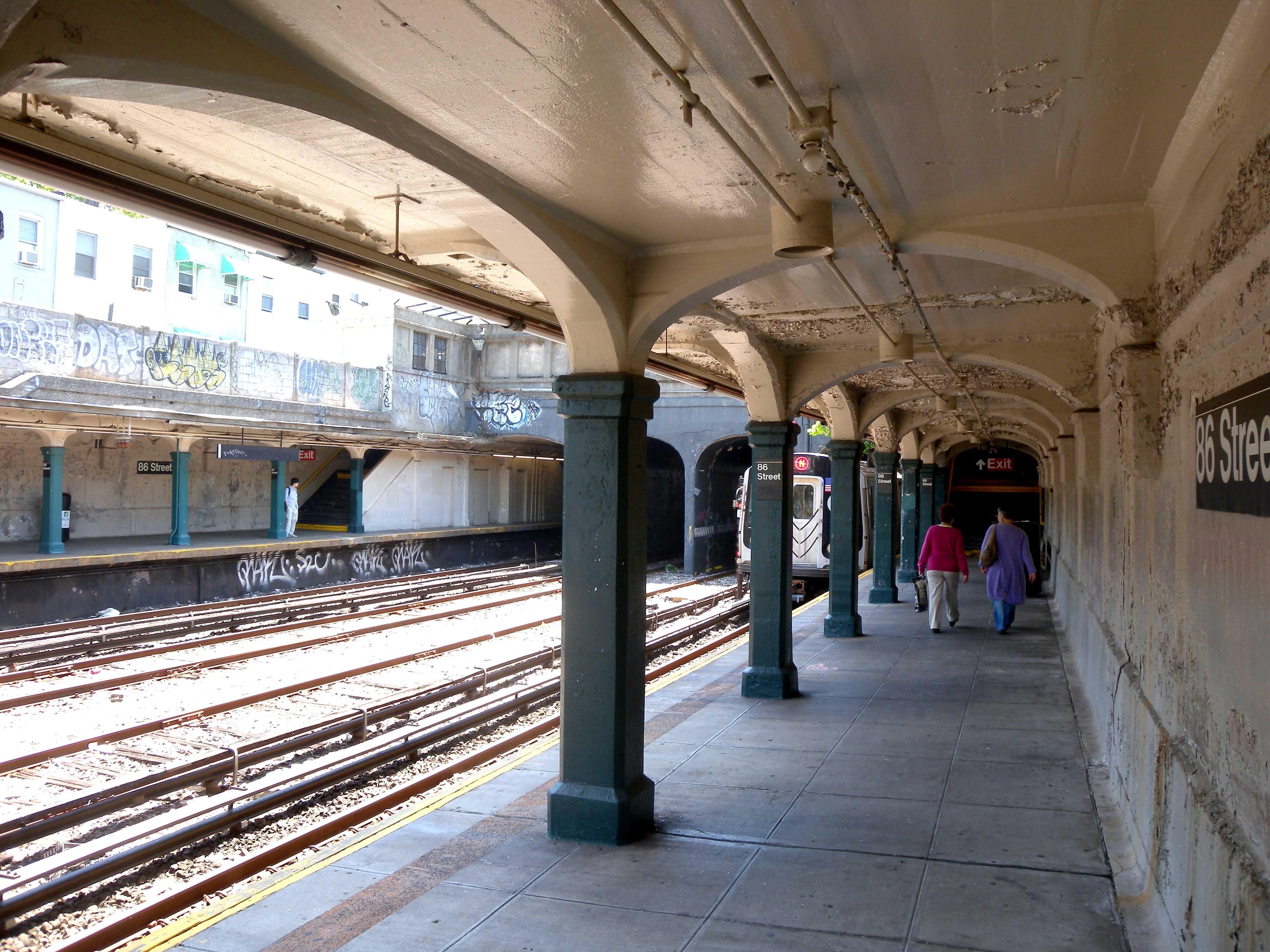 Looking southeast along southbound platform of Gravesend–86th Street (BMT Sea Beach Line) on a sunny midday.